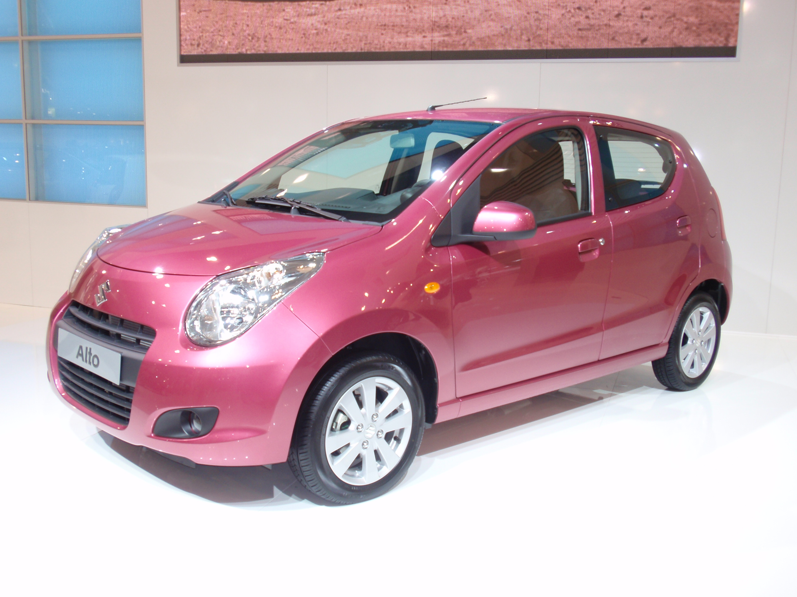 New Suzuki Alto at the 2008 Paris Motor Show